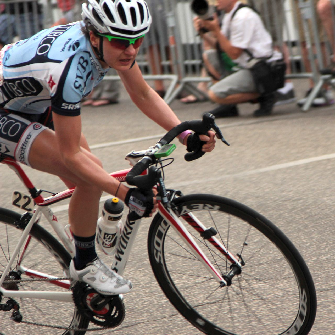 Megan Guarnier in the 2012 Nature Valley Grand Prix